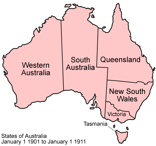 Map of the states of Australia as they were between 1901 and 1911. On January 1, 1901, the Commonwealth of Australia was formed with these six states. On January 1, 1911, Northern Territory was split from South Australia, and the Australian Capital Territory was created inside New South Wales, giving Australia the same layout it has today, except for a period between 1927 and 1931. Made by User:Golbez.